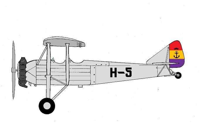 Hispano E-30 of the Aeronautica Naval